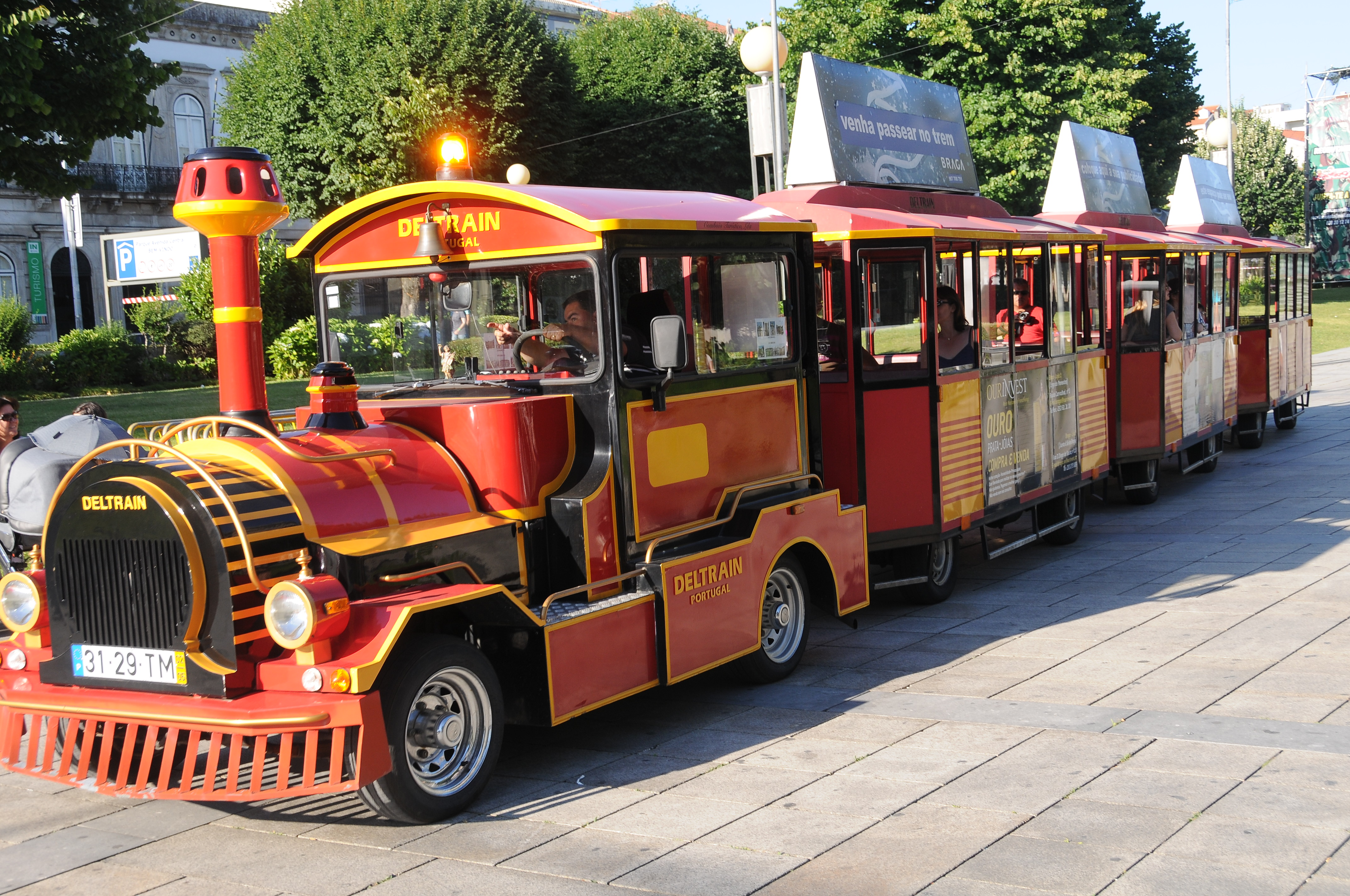 Train in Braga